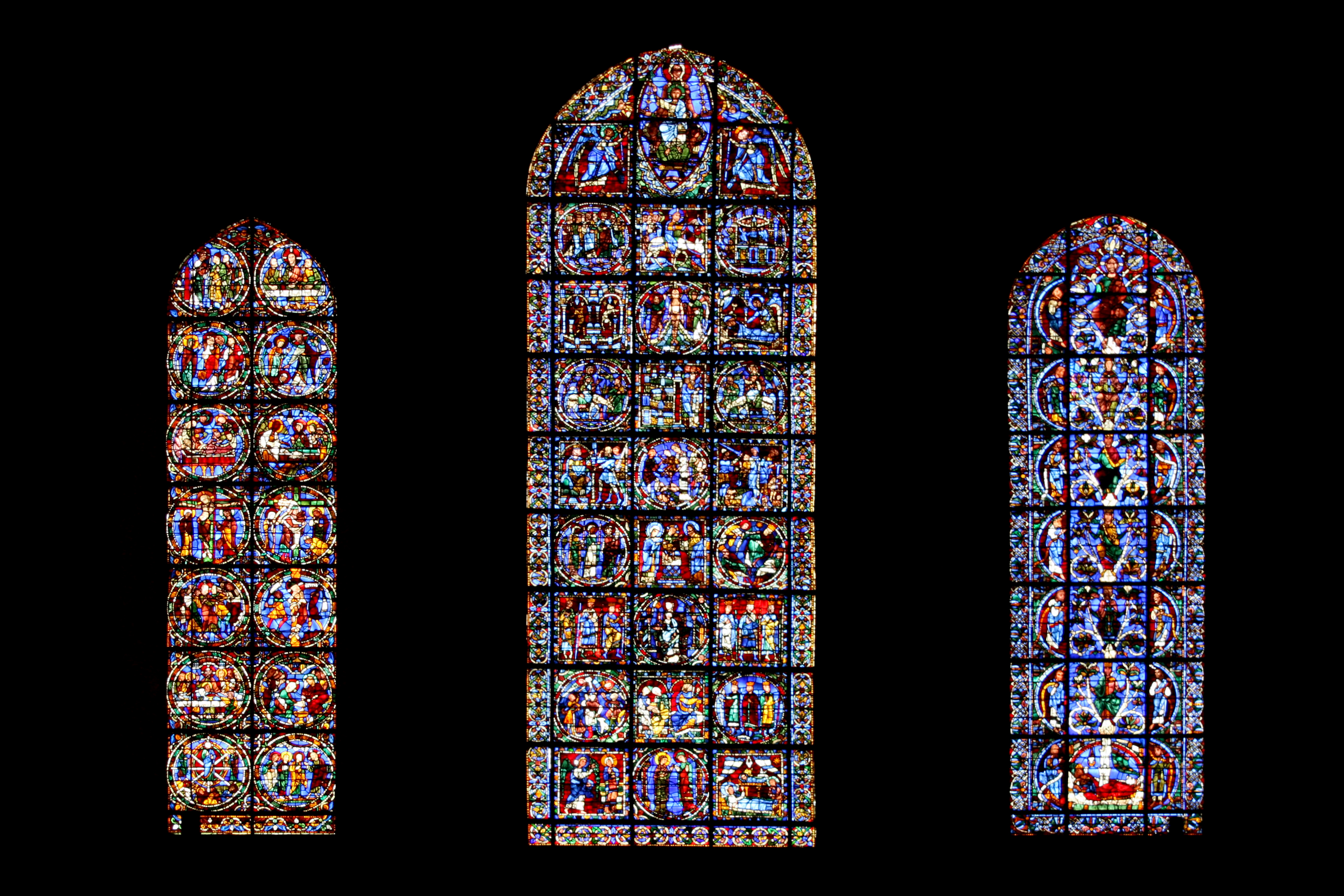 The lancets of the western rose window of Chartres Cathedral.